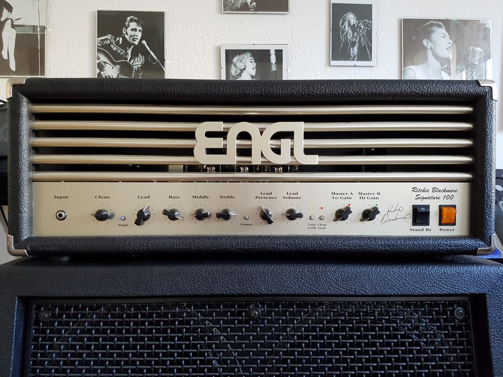 Amp Engl Ritchie Blackmore